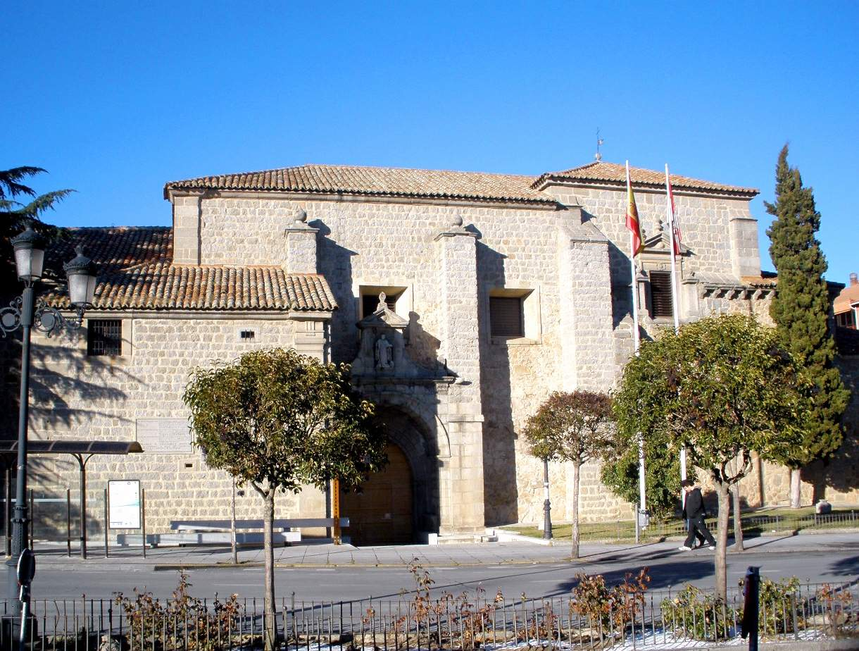 Antiguo Real Monasterio de Santa Ana, en Ávila. Actualmente acoge las dependencias de la Delegación Territorial de la Junta de Castilla y León